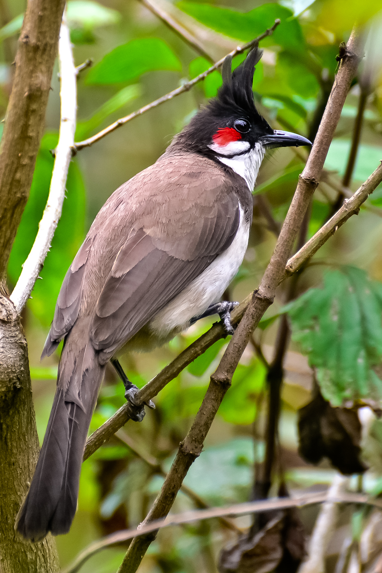 Red-whiskered Bulbul (Pycnonotus jocosus) at Periyar National Park, India